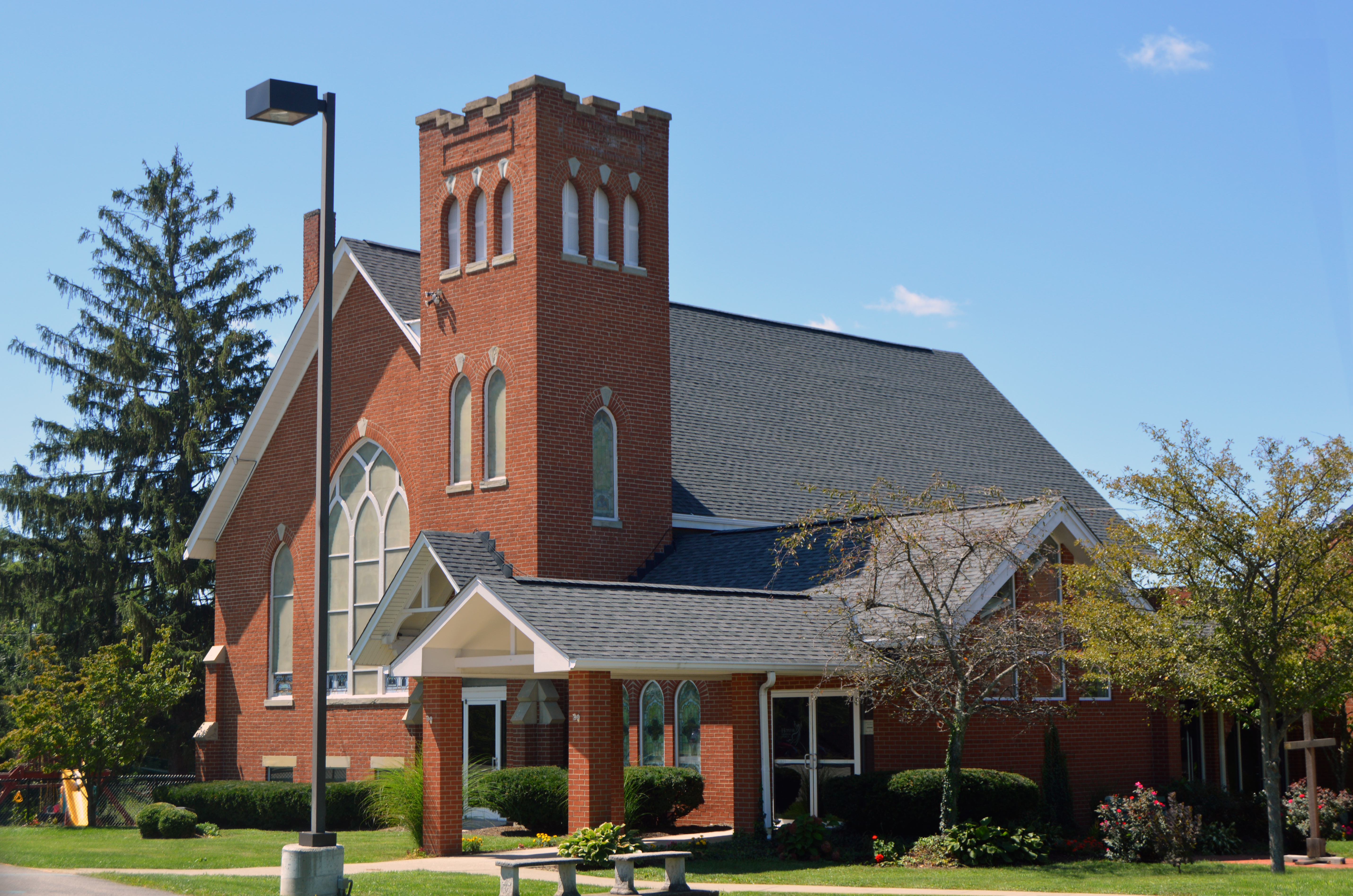 Front and northern side of the Hopeful Lutheran Church, located at 6431 Hopeful Road just outside Florence in Boone County, Kentucky, United States. Built in 1917 and later expanded, it is listed on the National Register of Historic Places.